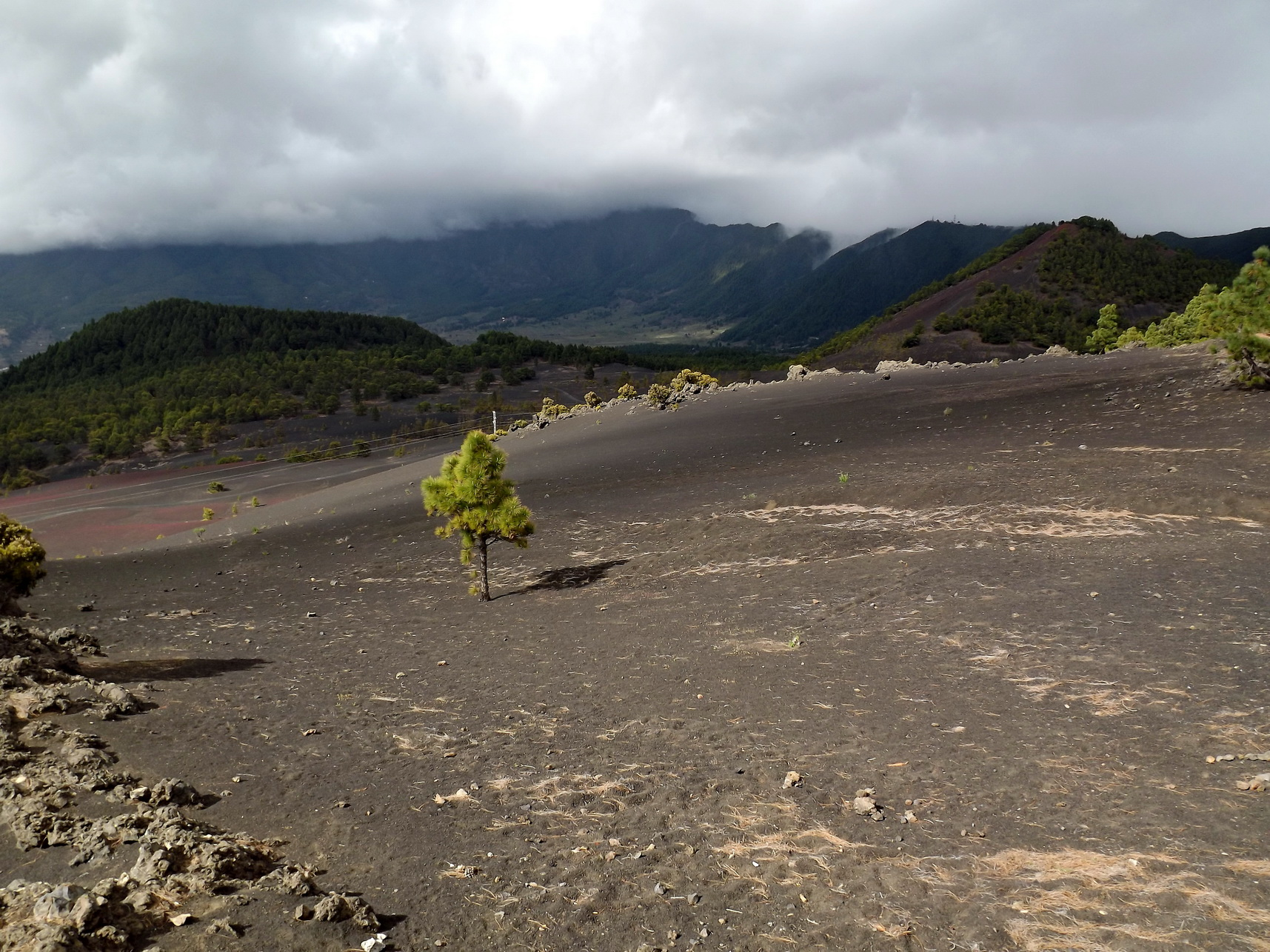 Llano del Jable, La Palma, Spain